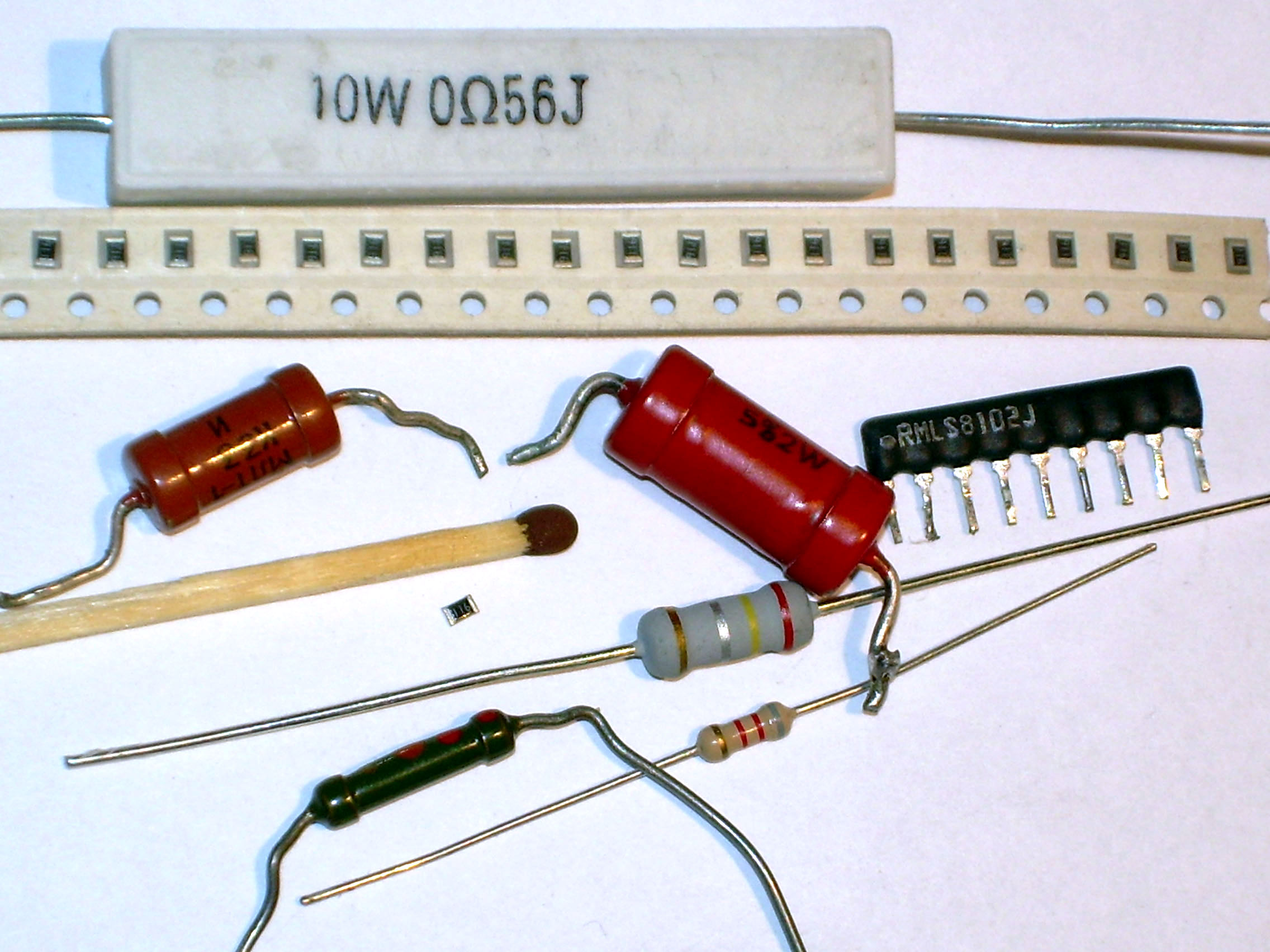 Various electronic resistors